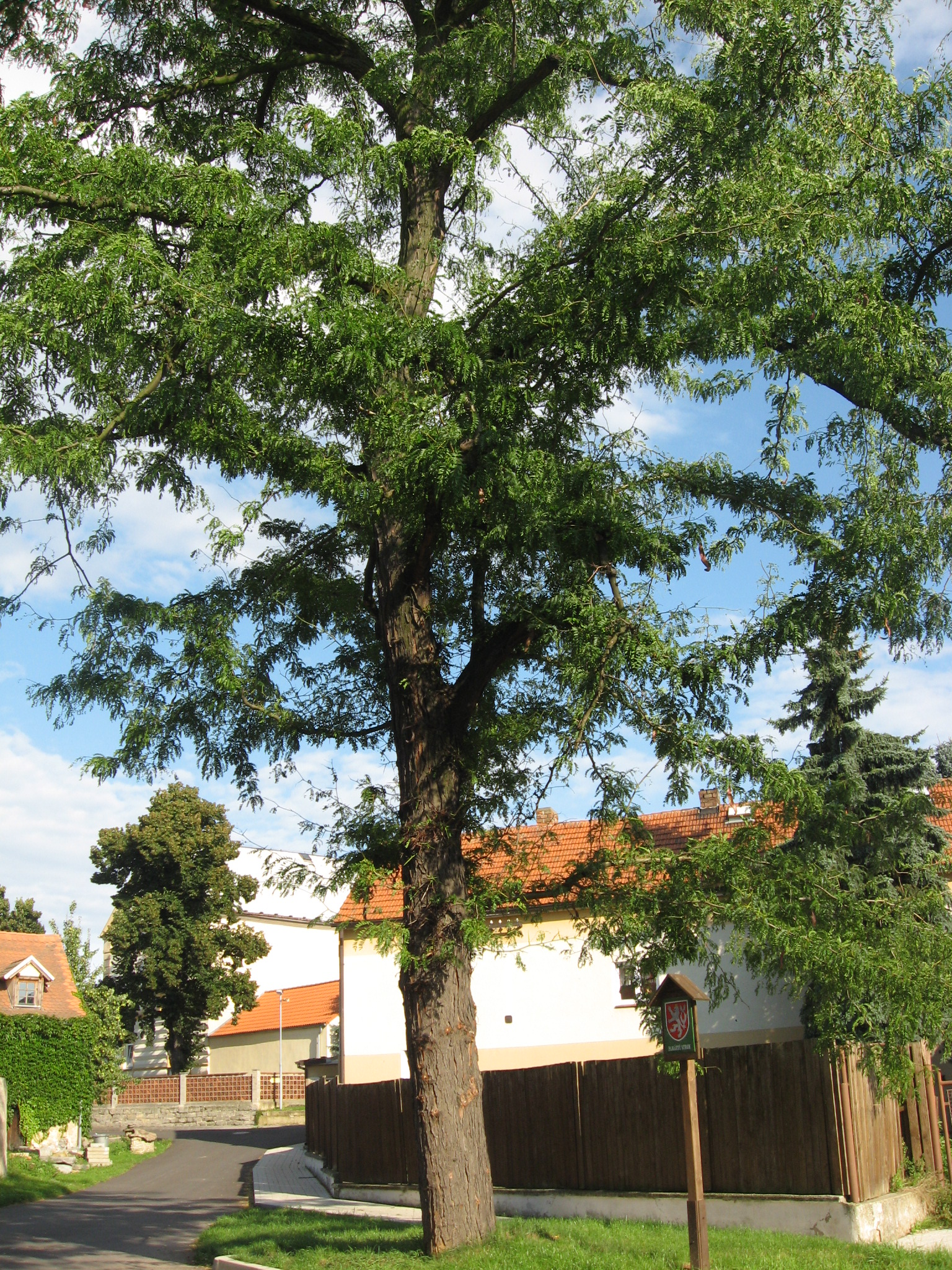 Famous Gleditsia triacanthos in Slavětín, Louny District, Czech Republic